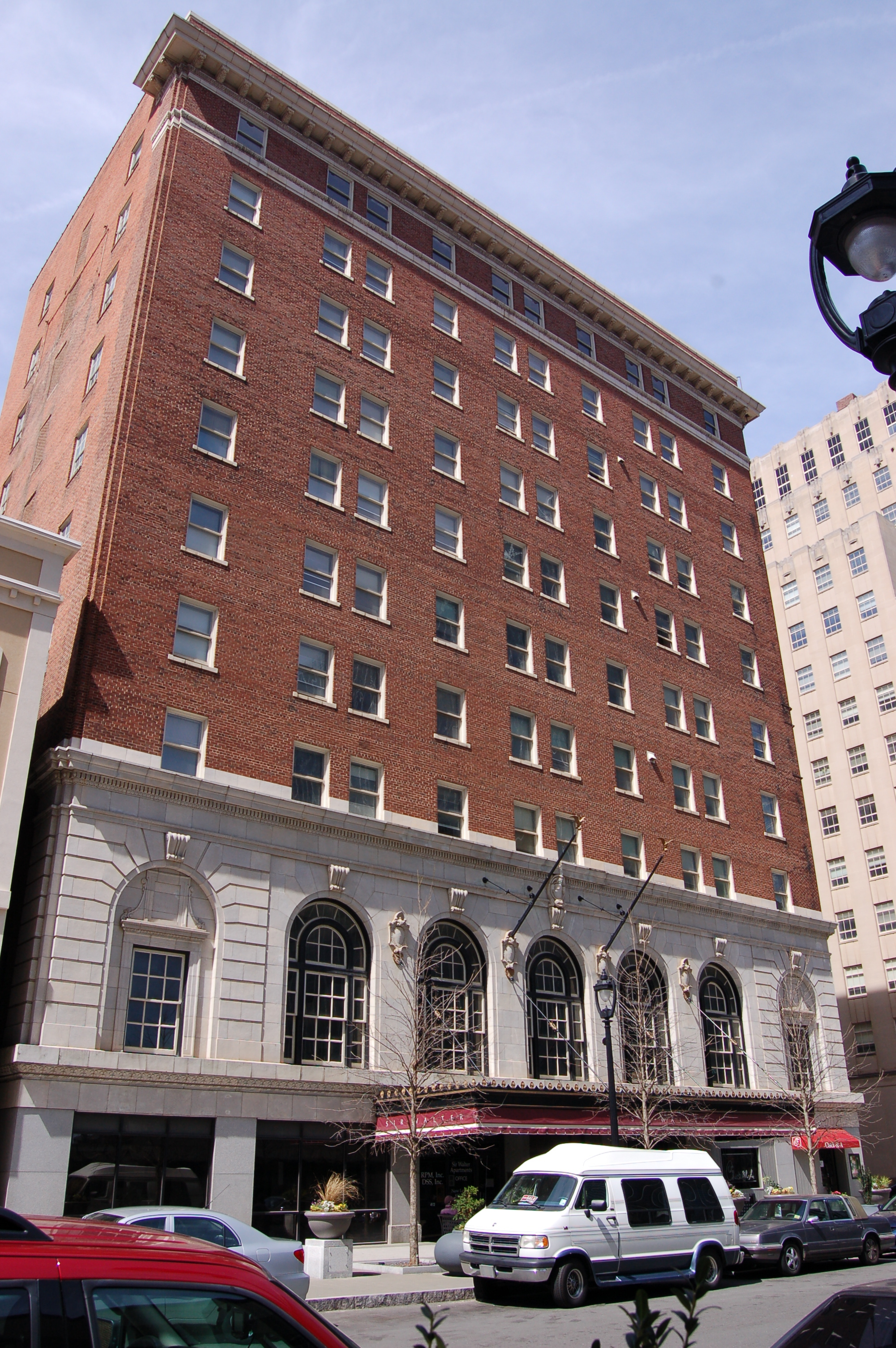 The Sir Walter Raleigh hotel in downtown Raleigh, North Carolina